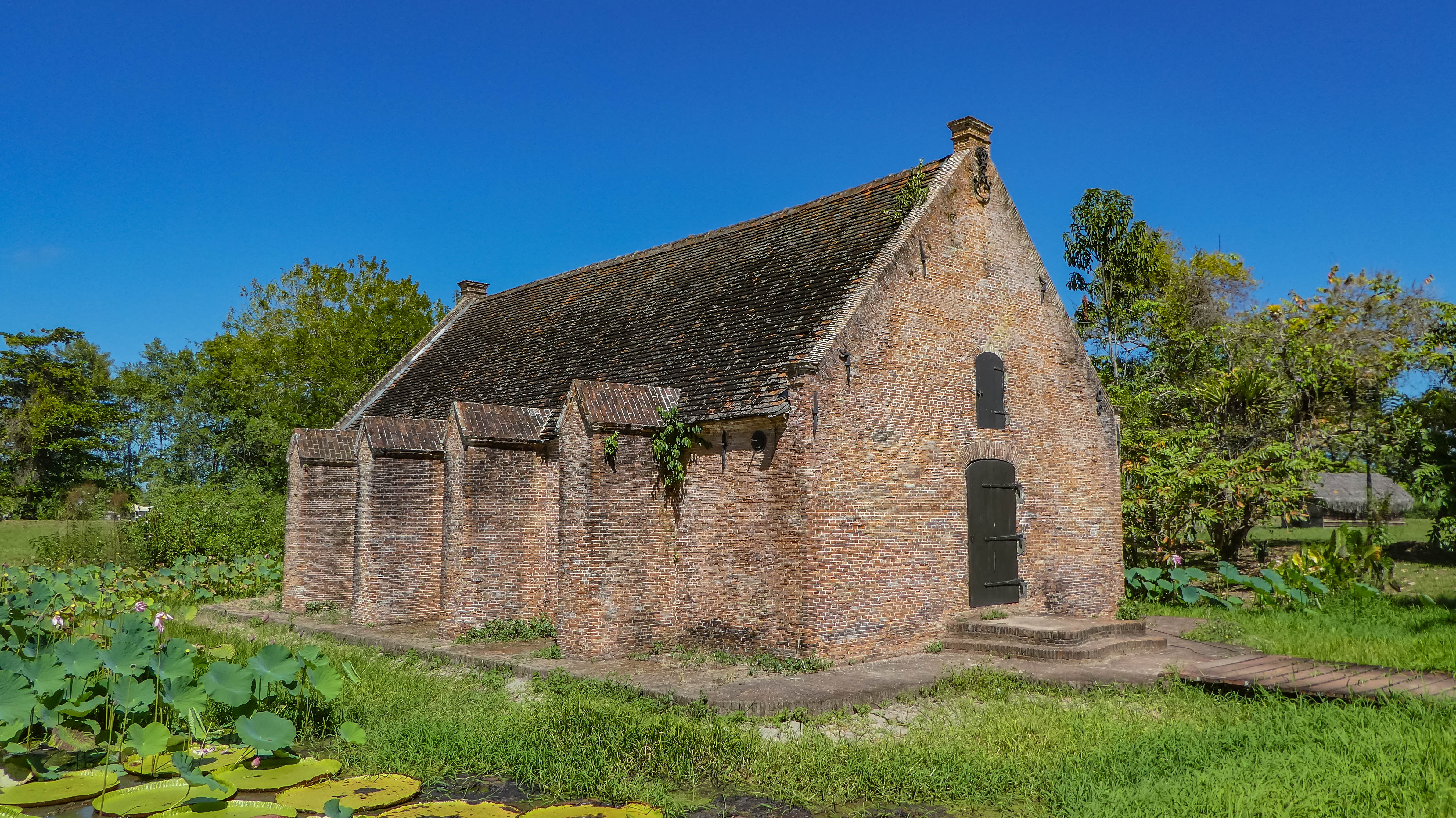 A gunpowder house in Fort Nieuw Amsterdam that is disguised as a church to prevent being hit by enemies, as churches are often spared in war.